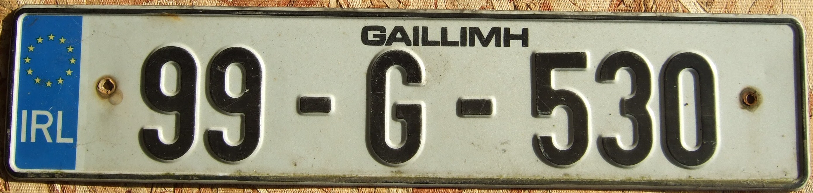 This 1999 County Galway license plate was first registered in 1999 "99" prefix followed by the county code "G" for Galway with the county name in Gaelic top center. This plate is reflective.